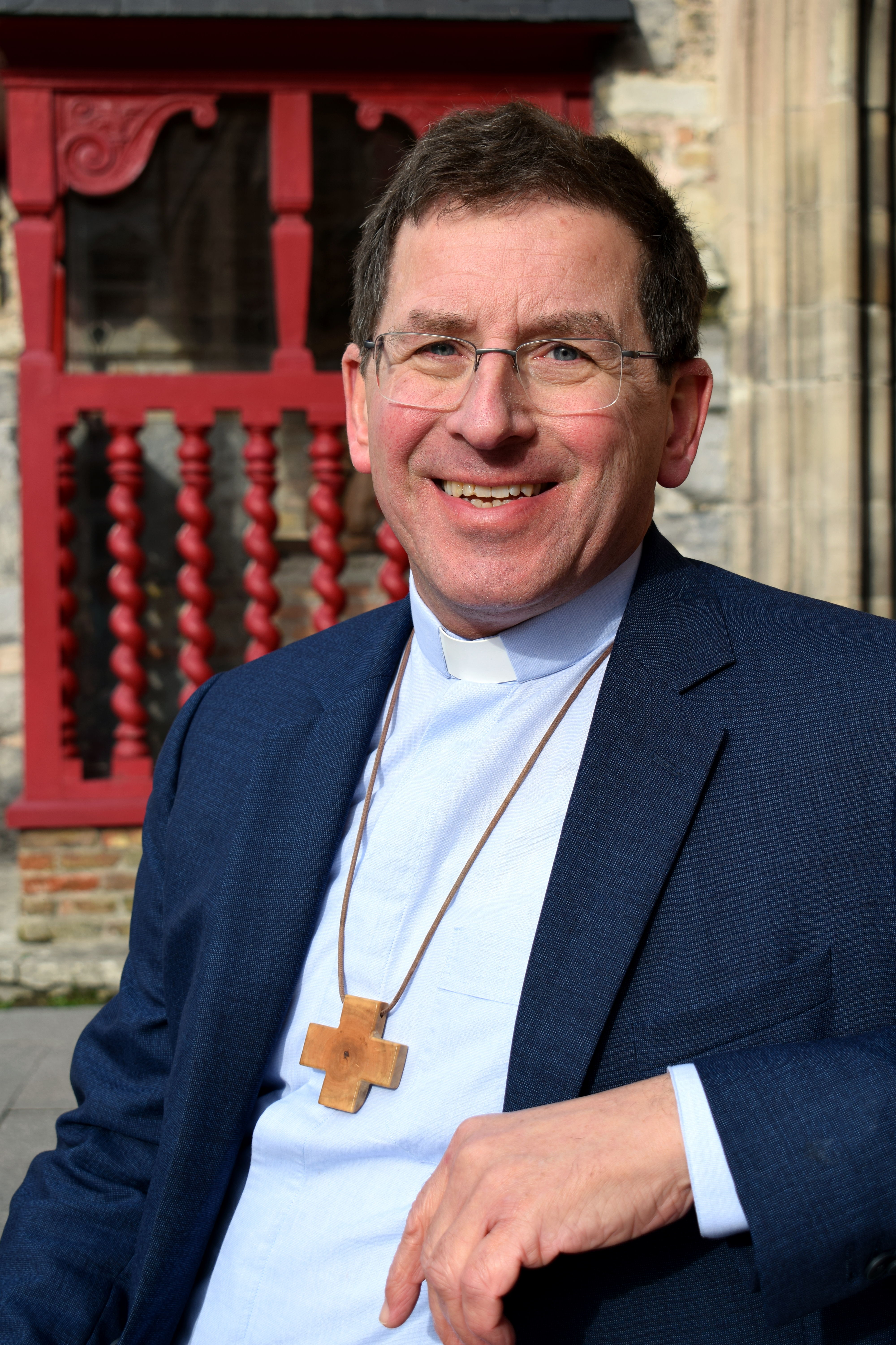 A picture of bishop Lode Aerts of Bruges, taken in February 2020.